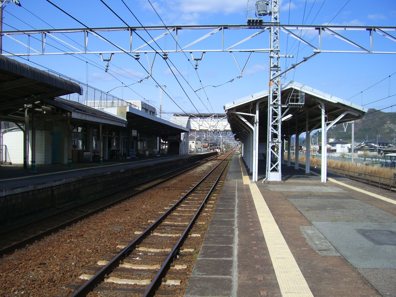 West Japan Railway Sanyo Main Line Wake Station Platform 西日本旅客鉄道 山陽本線 和気駅 駅ホーム